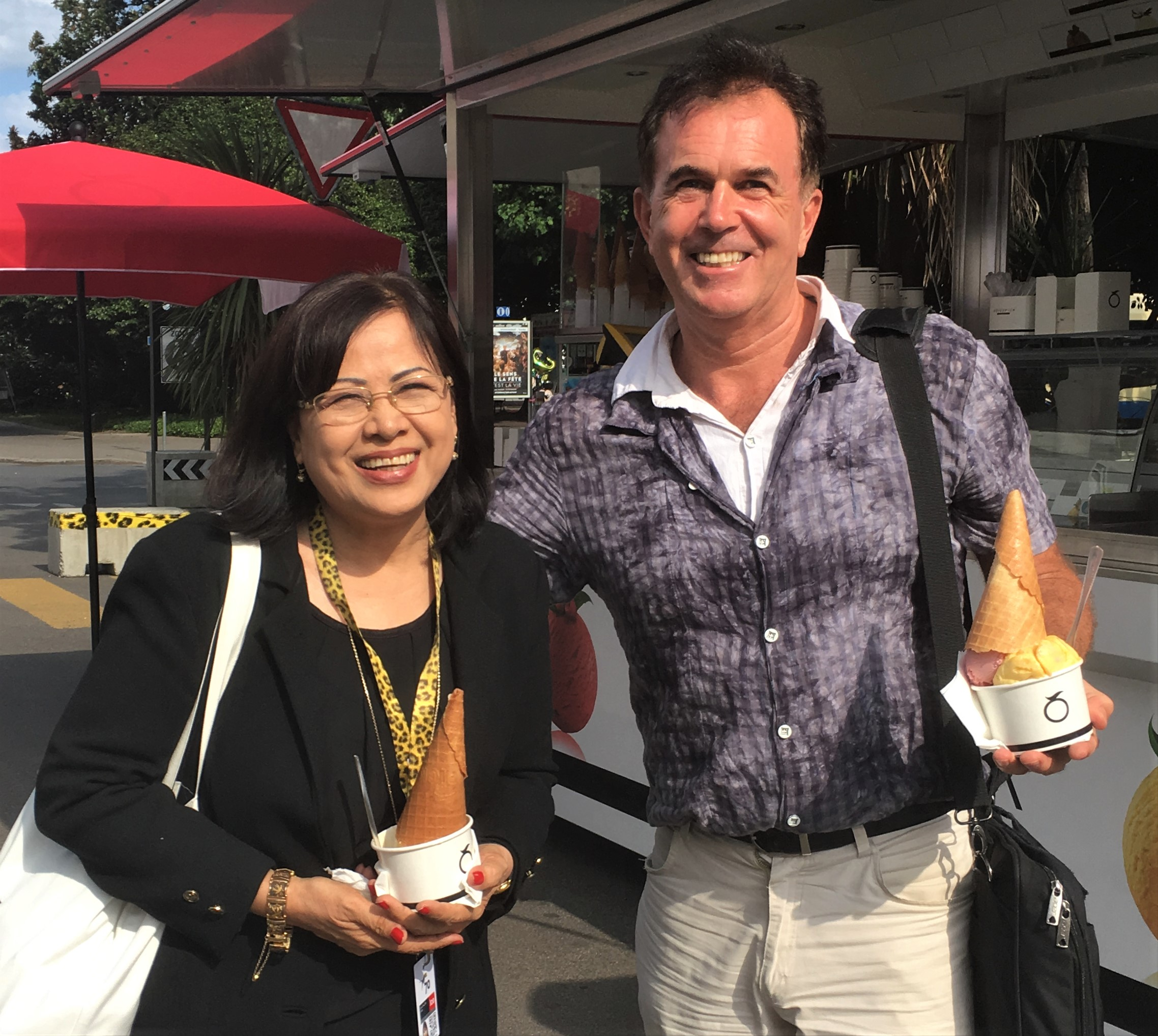 Roger Steinmann and Grace Swe Htaik at Locarno Film Festival 2017